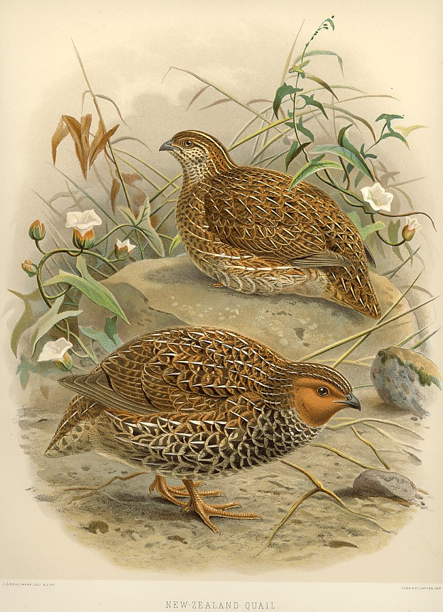 .New-Zealand Quail (Coturnix novaezelandiae).